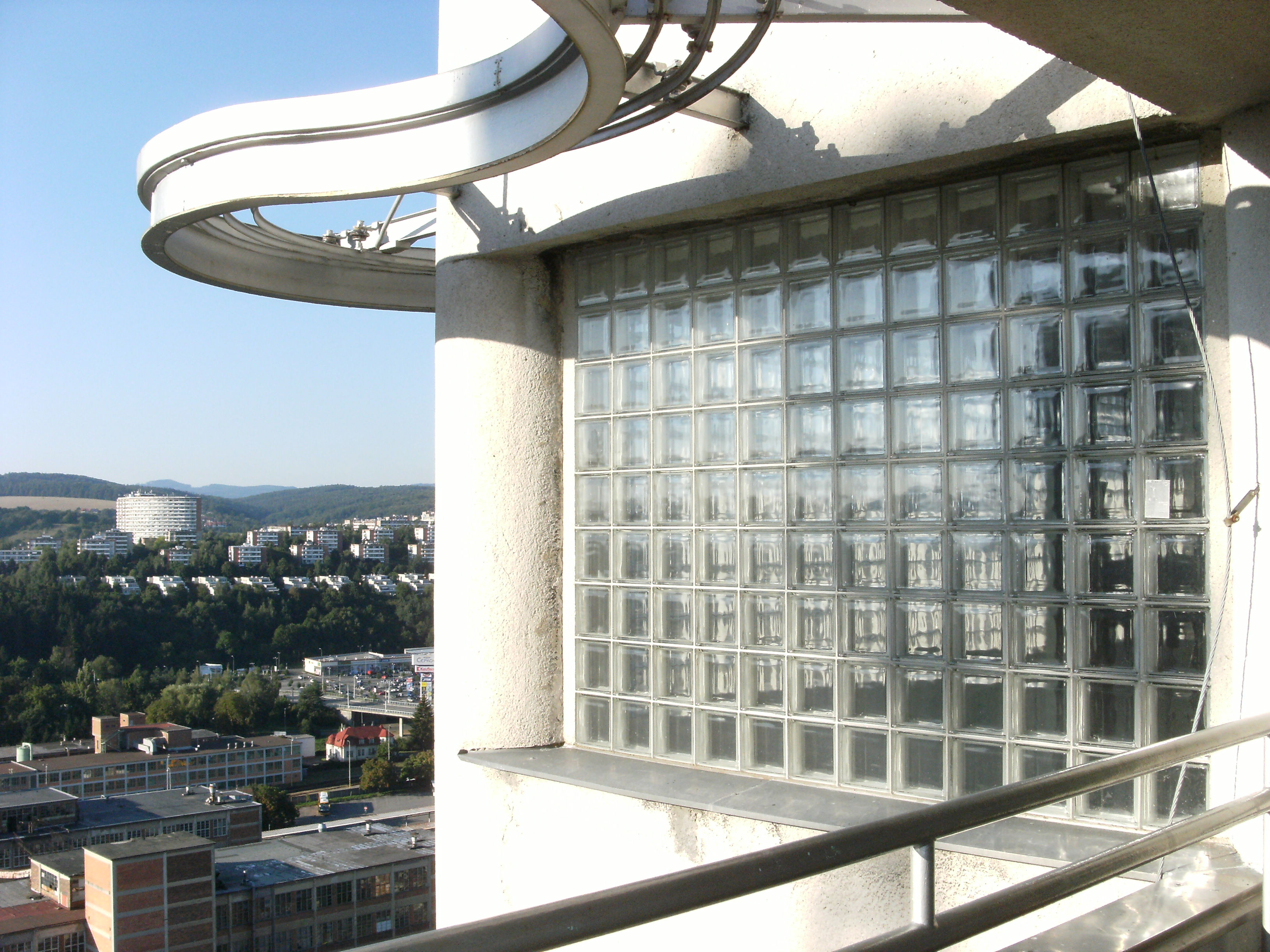 Glass block_window, Bata building nr. 21, railing, Zlín.